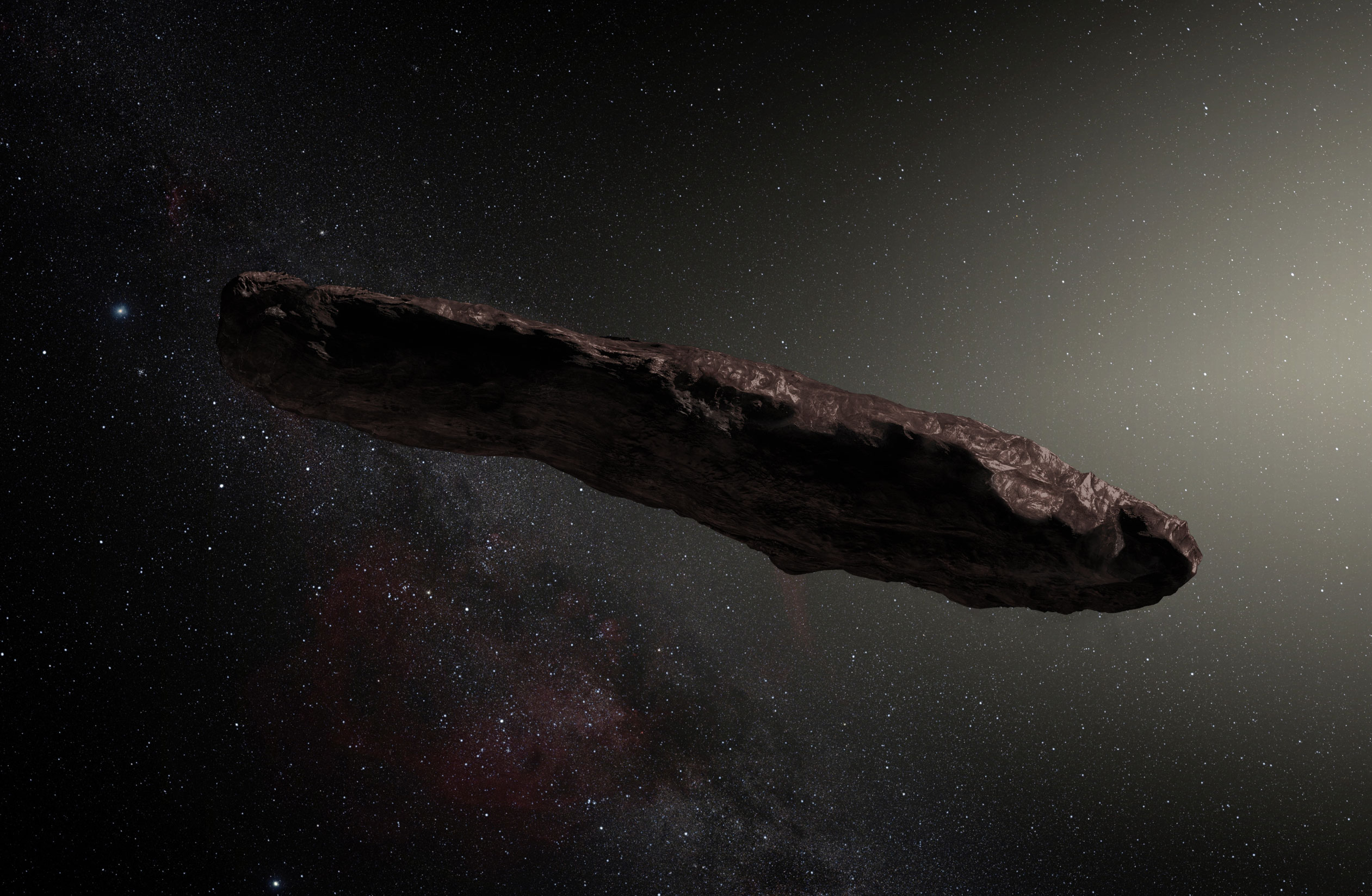 Artist's impression of ʻOumuamua, the first known interstellar object to pass through the Solar System.